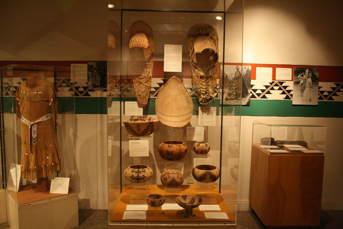 Ahwaneechee display at the Yosemite Museum. Pictured are Native American baskets, woman's clothing, cradle boards, and tools. In Yosemite Valley, Yosemite National Park, California.